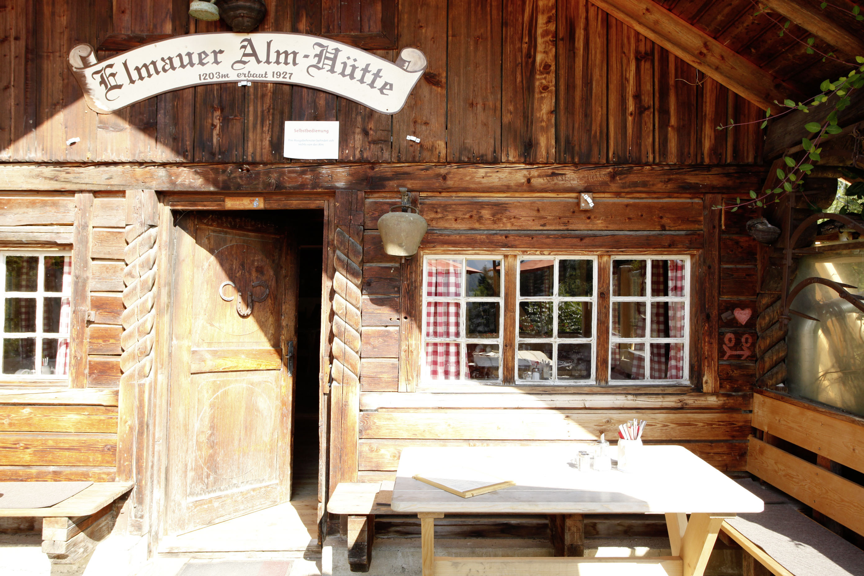 Elmauer Alm